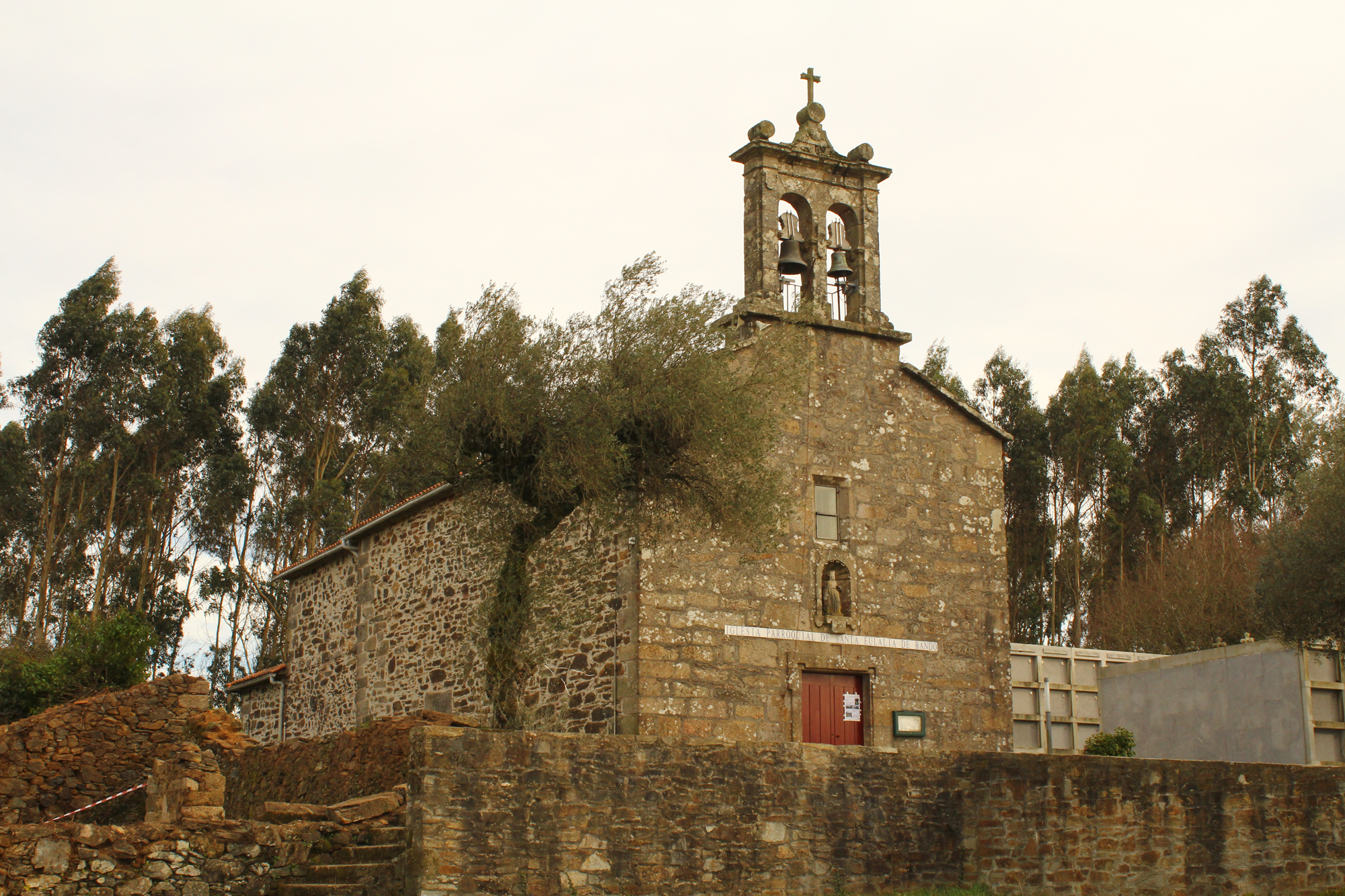 Parish Church of Santa Eulalia de Bando